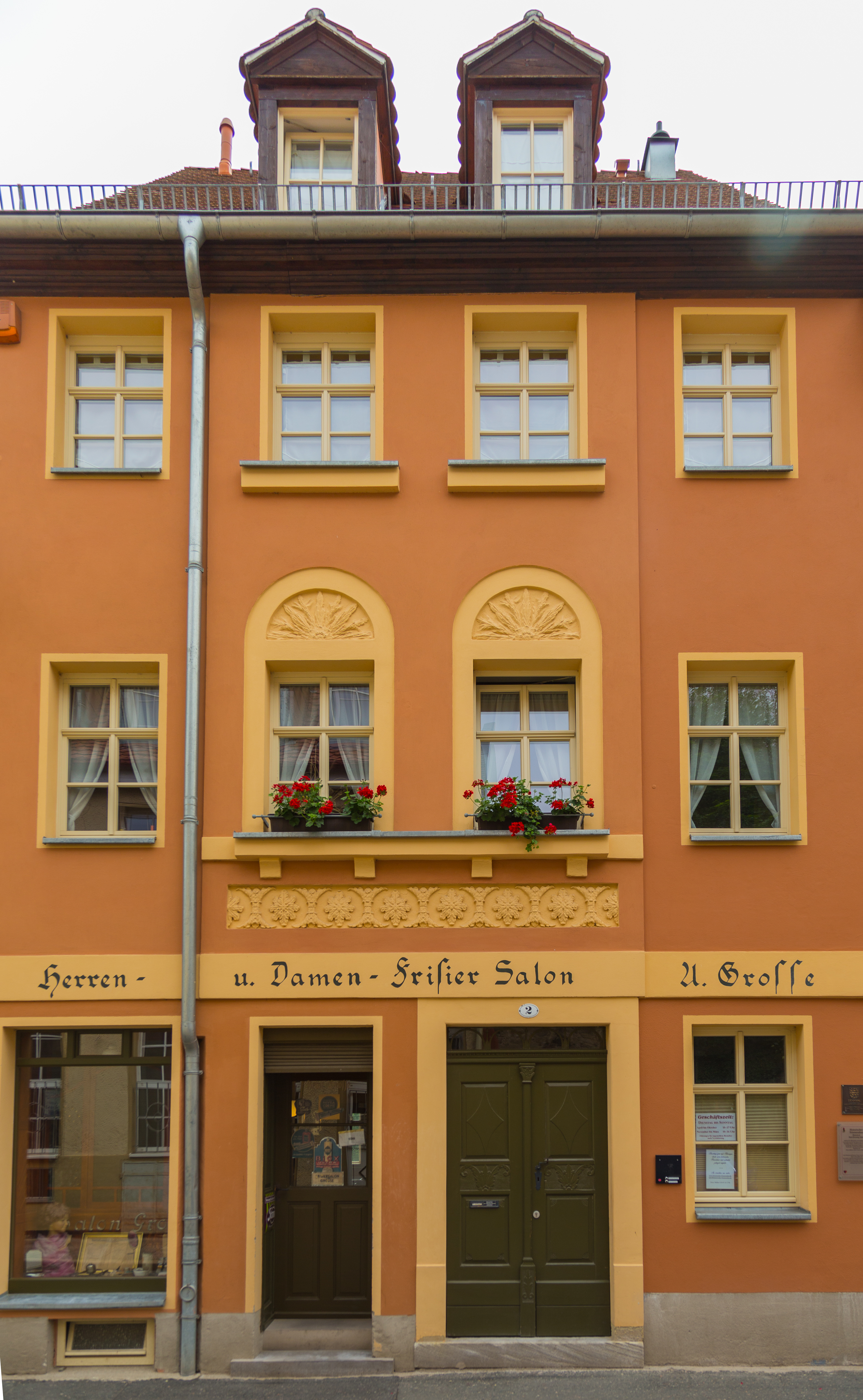 Historical hair-dressing salon, 2 Pauritz Street (Pauritzer Straße 2) in Altenburg, Thuringia, Germany.